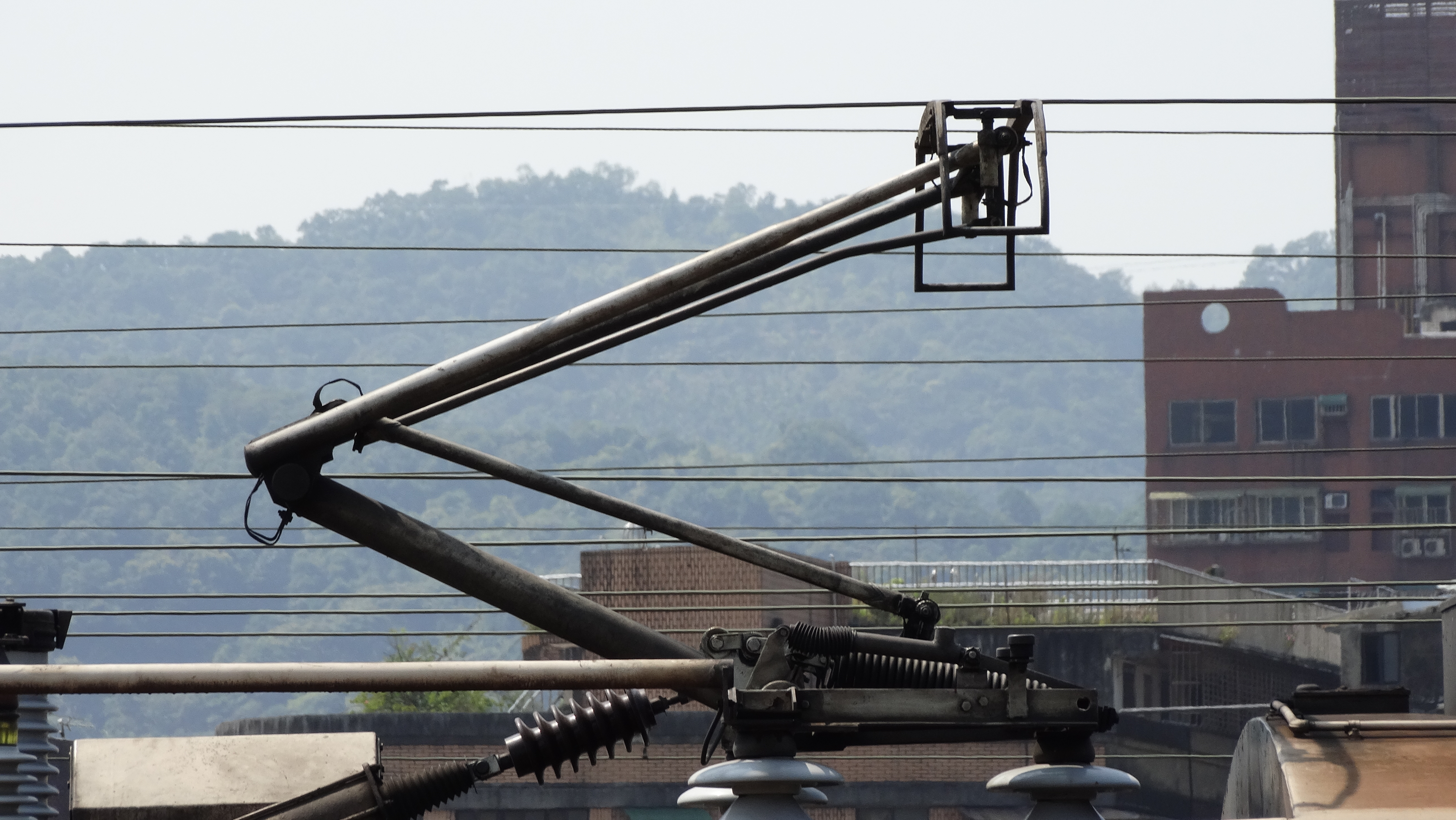 TRA E200 electric locomotive pantograph close